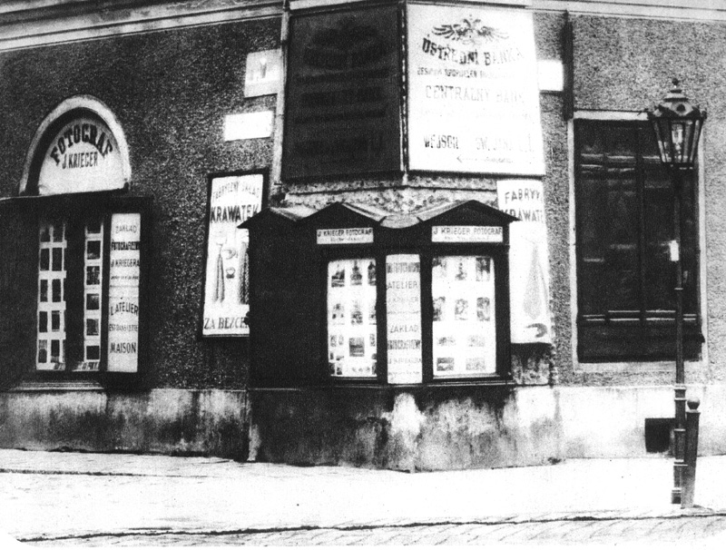 Atelier of Ignacy Krieger, Market Square, Kraków. Photo taken by his children: Natan or Amalia